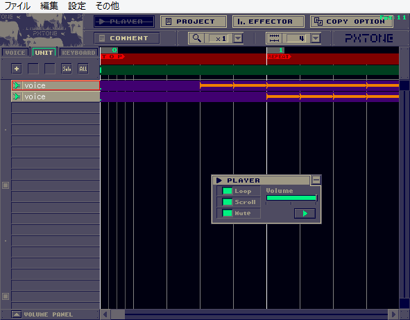 Screenshot of the freeware audio editing program Pxtone.